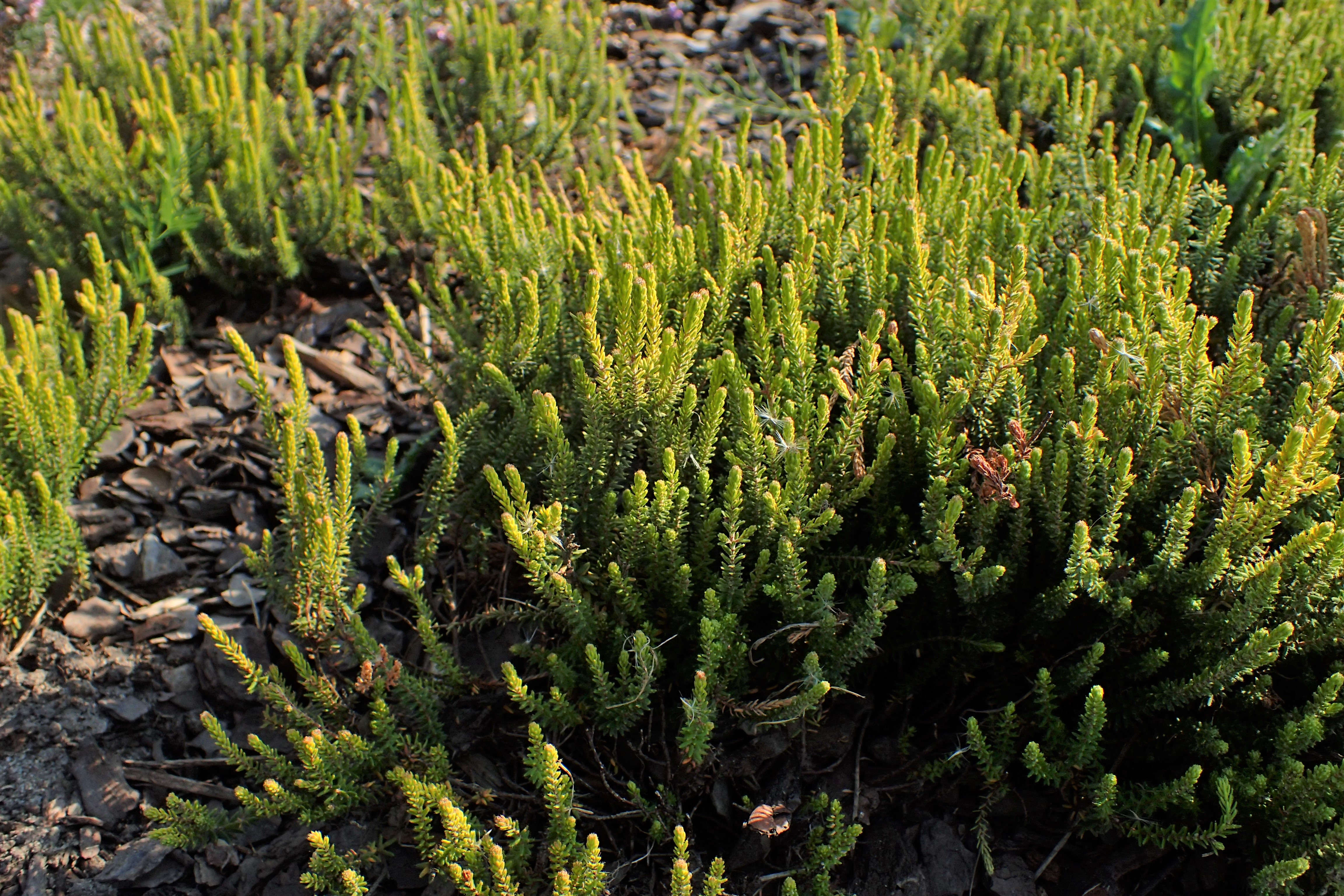 Erica tetralix 'Swedish Yellow' in botanical garden in Kielce, Poland